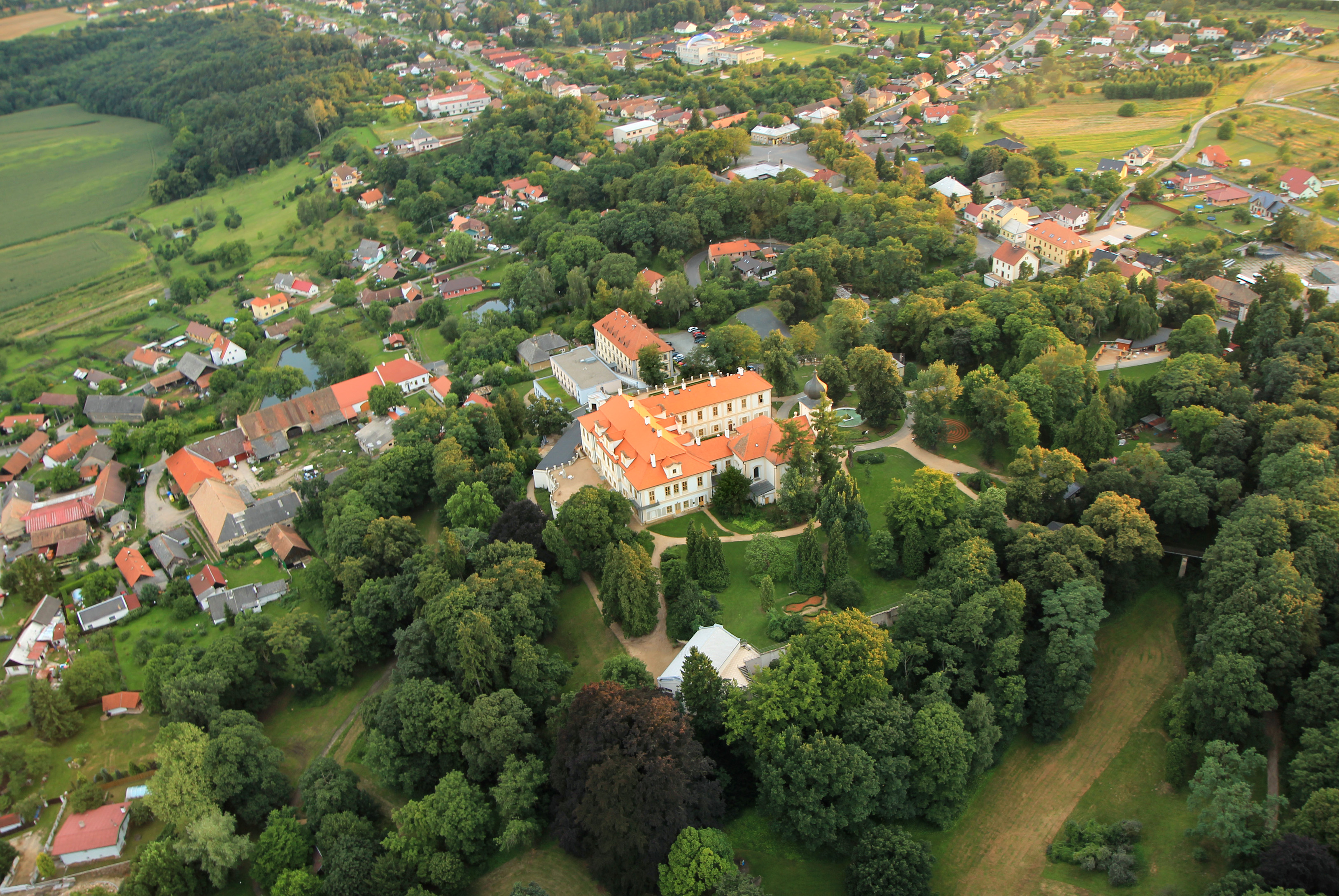 Aerial view of Loučeň, Czech Republic, with Loučeň Castle in the middle